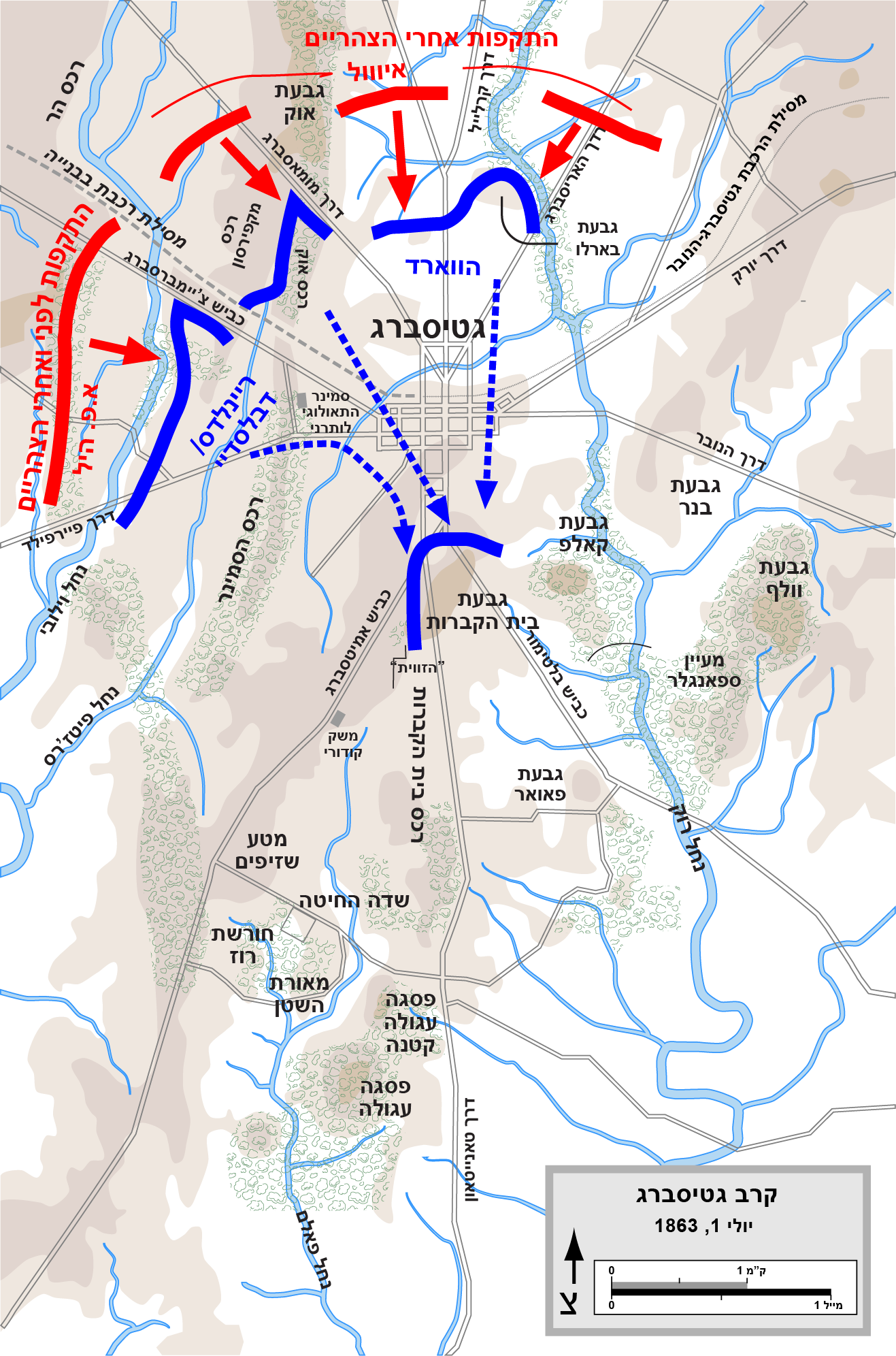 Map of the Battle of Gettysburg of the American Civil War. Drawn in Adobe Illustrator CS5 by Hal Jespersen. Graphic source file is available at